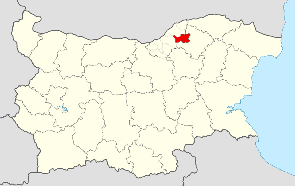 Location map of Vetovo Municipality within Bulgaria and Ruse Province. Equirectangular projection, N/S stretching 130 %. Geographic limits of the map: N: 44.4° N S: 41.1° N W: 22.1° E E: 28.9° E